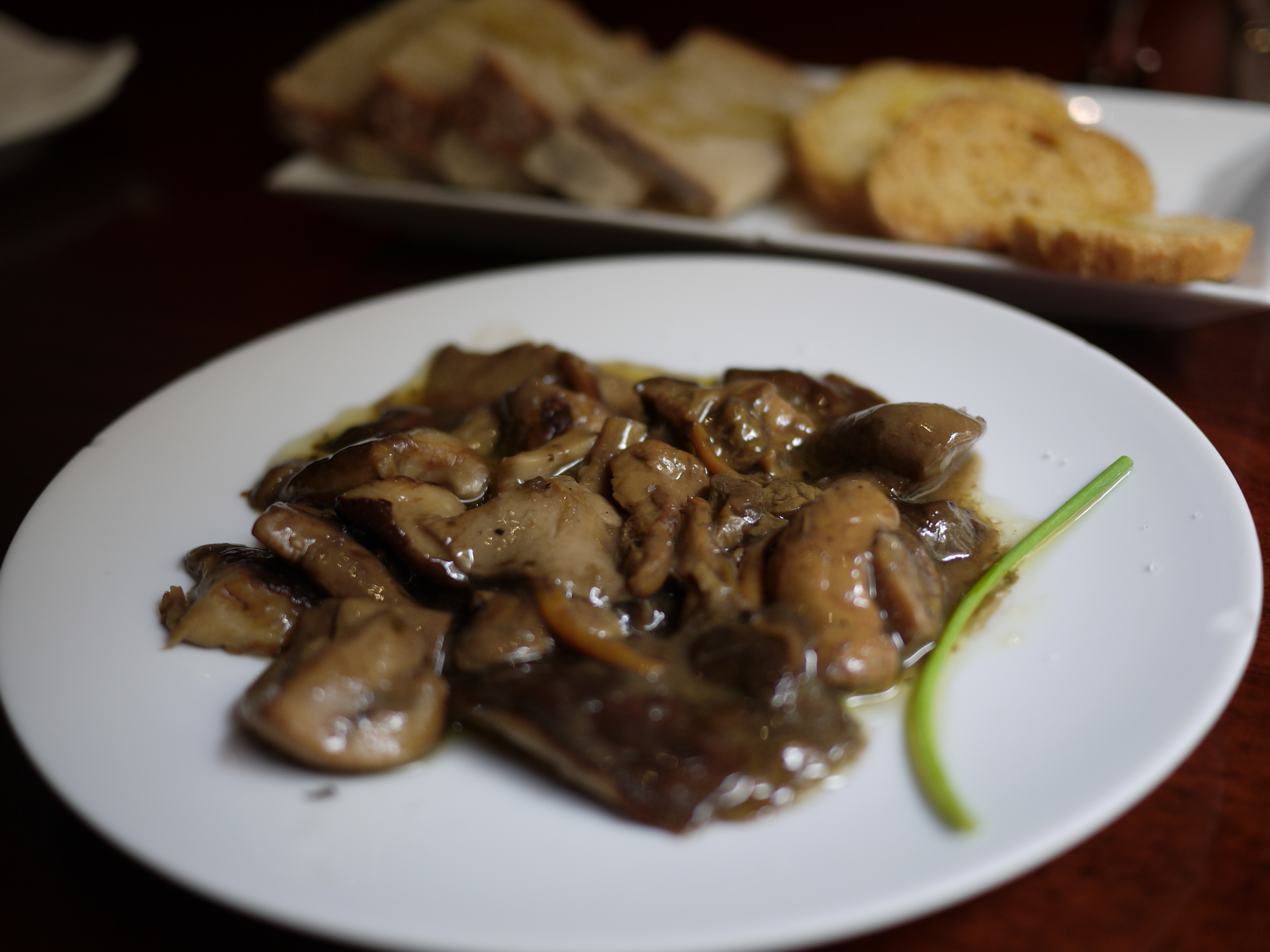 Cep Daube